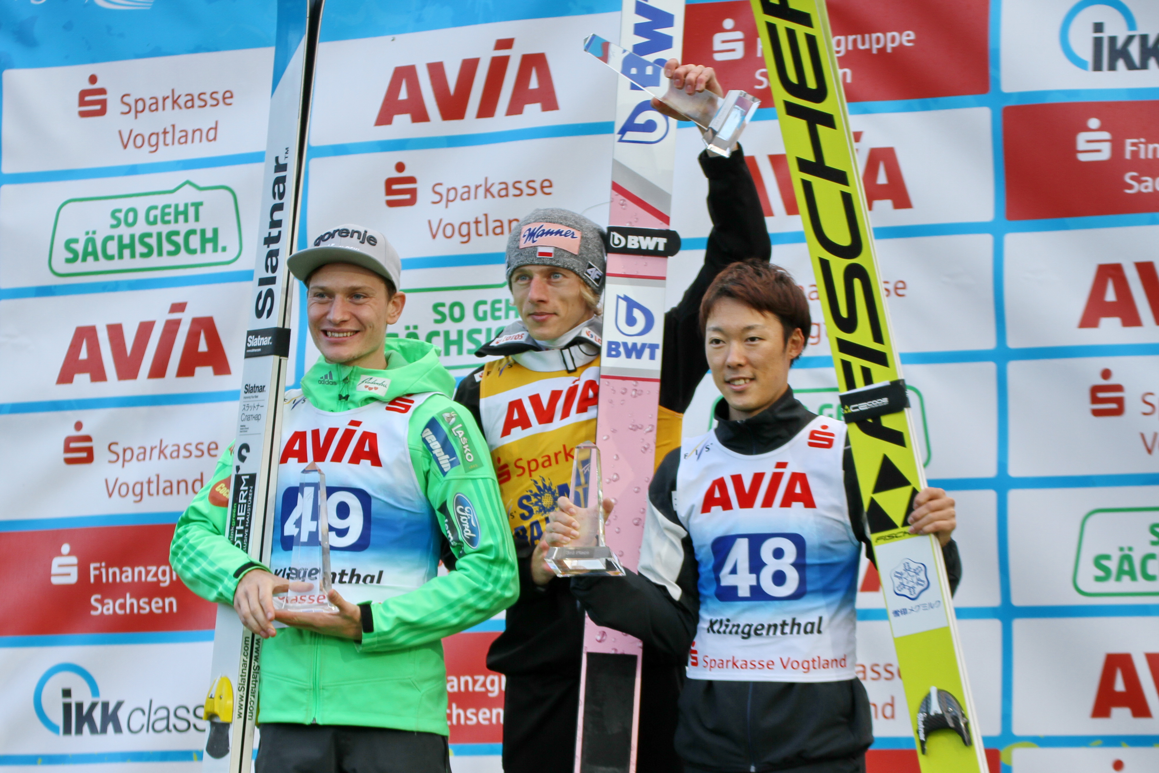 FIS Ski Jumping Summer Grand Prix Klingenthal 2017 on 2017-10-03 Anže Lanišek - Dawid Kubacki - Junshirō Kobayashi